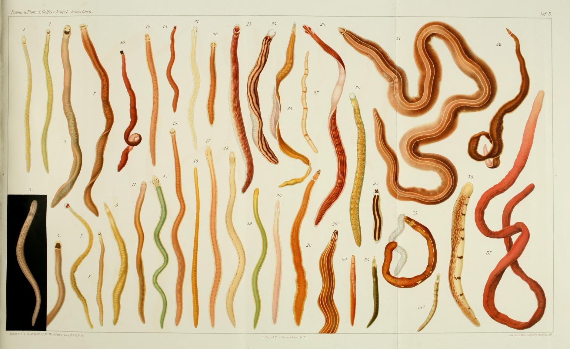 Fauna und flora des golfes von Neapel ; 22 Taf III Plate text Die Nemertinen des Golfes von Neapel Plate 3 1 Tetrastemma diadema Hubrecht, 1879 2 Tetrastemma coronatum (Quatrefages, 1846) female 3 Tetrastemma flavidum Ehrenberg, 1828 4 Tetrastemma melanocephalum (Johnston, 1837) 5 Tetrastemma longissimum Bürger, 1895 nomen dubium 6 Tetrastemma peltatum Bürger, 1895 nomen dubium 7 Tetrastemma nimbatum Bürger, 1895 8 Tetrastemma coronatum (Quatrefages, 1846) male 9 Tetrastemma buxeum Bürger, 1895 10 Tetrastemma melanocephalum (Johnston, 1837) 11 Tetrastemma vastum Bürger, 1895 12 Tetrastemma cruciatum Bürger, 1895 13 Tetrastemma candidum (Müller, 1774) 14 Tetrastemma falsum Bürger, 1895 15 Tetrastemma portus Bürger, 1895 16 Tetrastemma helvolum Bürger, 1895 nomen dubium 17 Tetrastemma vermiculus (Quatrefages, 1846) 18 Tetrastemma vermiculus (Quatrefages, 1846) var. solium 19 Tetrastemma candidum (Müller, 1774) 20 Tetrastemma flavidum Ehrenberg, 1828 21 Tetrastemma interruptum Bürger, 1895 22 Tetrastemma cephalophorum Bürger, 1895 nomen dubium 23 Tetrastemma cerasinum Bürger, 1895 24 Tetrastemma vittatum = Cyanophthalma cordiceps (Friedrich, 1933) 25 Drepanophorus crassus 26 Drepanophorus igneus = Paradrepanophorus nisidensis (Hubrecht, 1875) 27 Oerstedia dorsalis (Abildgaard, 1806) 28,28a Drepanophorus spectabilis 29 Oerstedia dorsalis (Abildgaard, 1806) var. albolineata 30 Oerstedia dorsalis (Abildgaard, 1806) var. marmorata 31 Drepanophorus albolineatus 32 Drepanophorus crassus var. nisidensis 33 Tetrastemma scutelliferum Bürger, 1895 34, 34a Oerstedia dorsalis (Abildgaard, 1806)var. viridis 35 Oerstedia dorsalis (Abildgaard, 1806) var. albolineata 35 Oerstedia dorsalis (Abildgaard, 1806) var. marmorata 36 Lineus molochinus Bürger, 1892